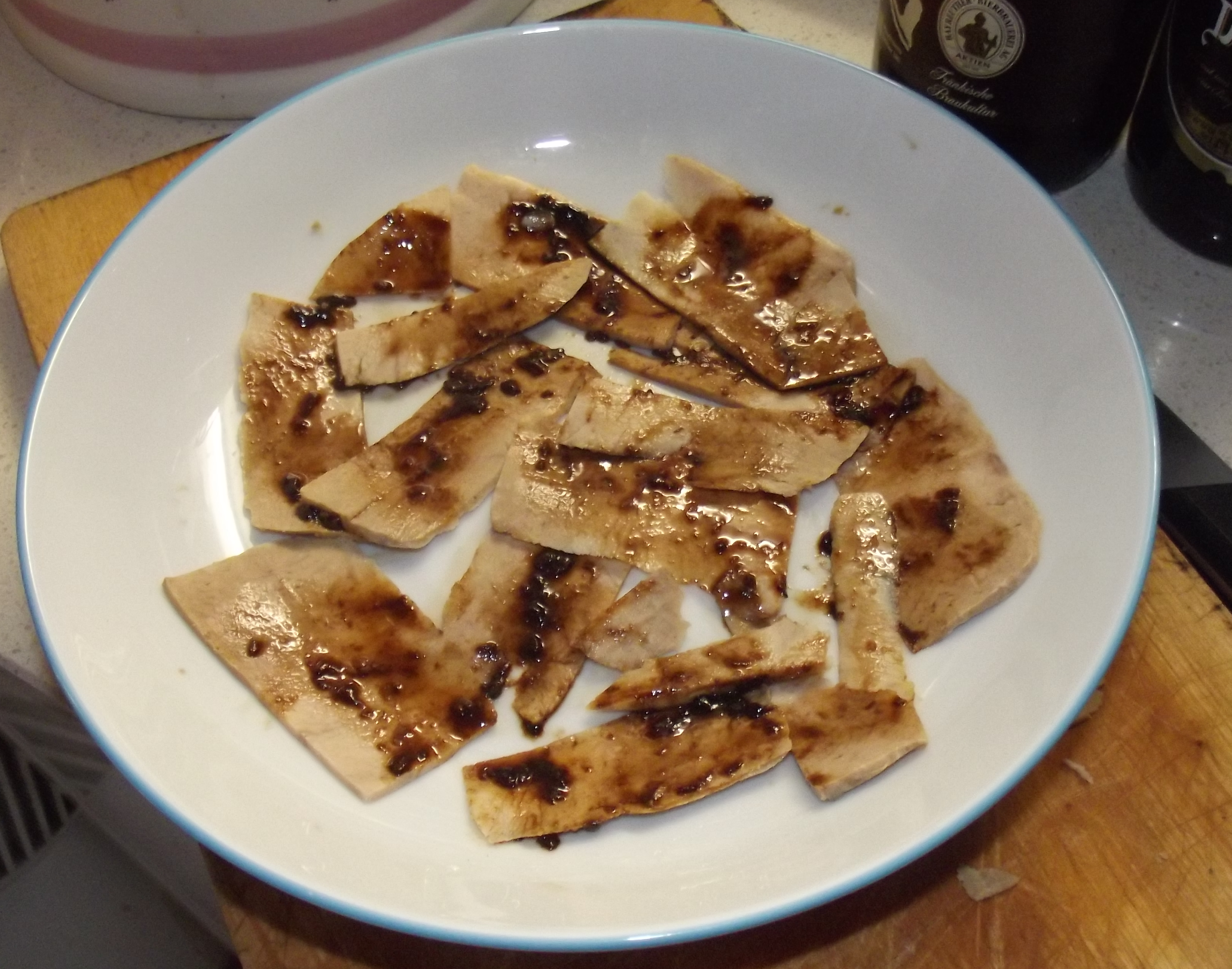 a teteun dish (a traditional cow udder based cold cut from Aosta Valley (Italy))